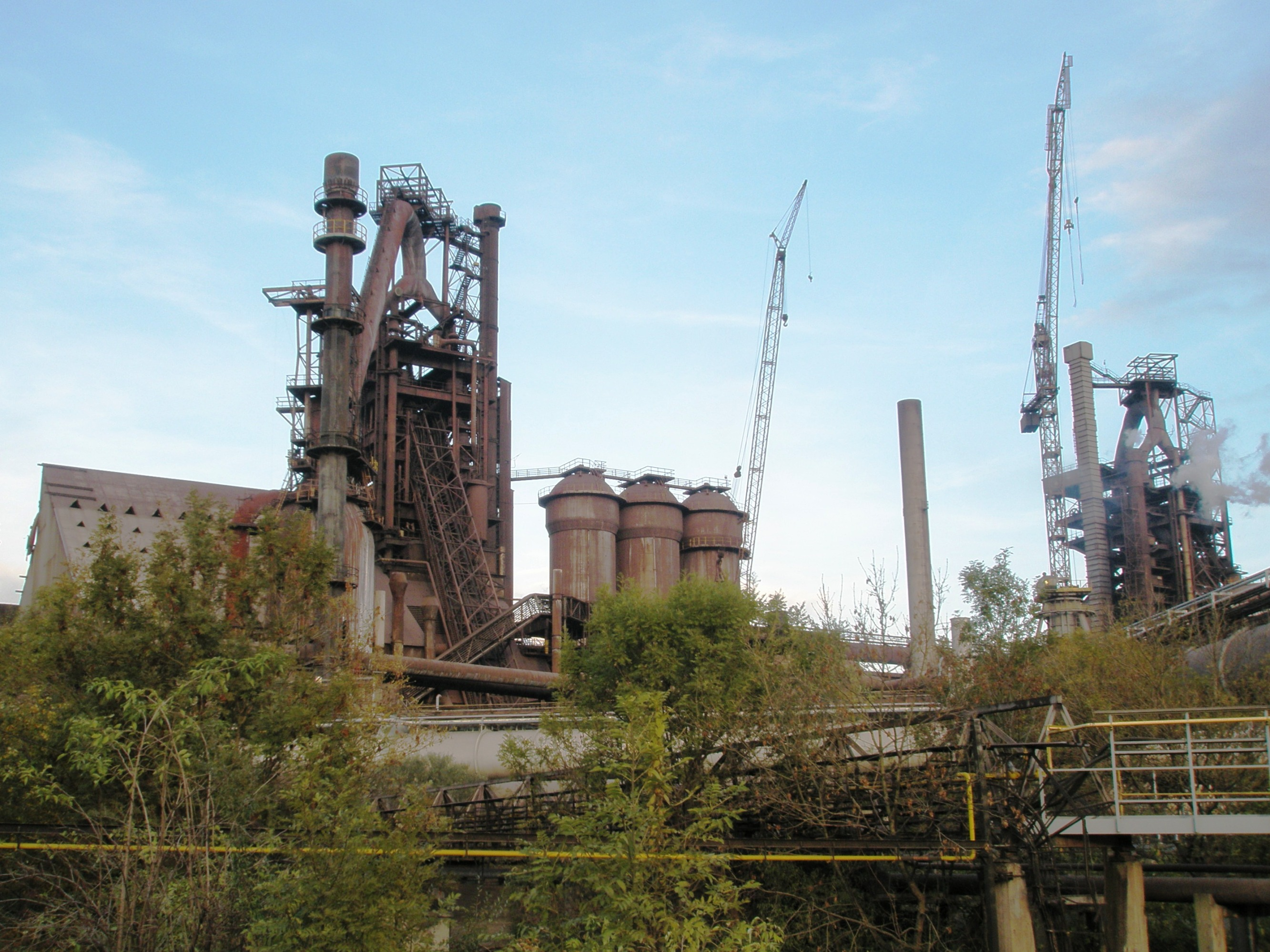 Třinec blast furnaces, a view from Olza River